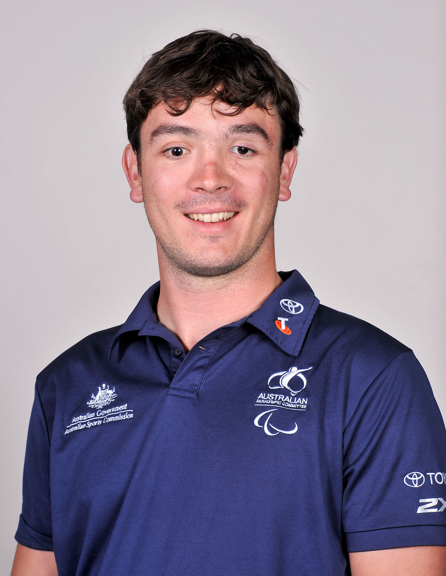 Portrait of Australian cyclist Bryce Lindores, 2012 Australian Paralympic (shadow) Team athlete